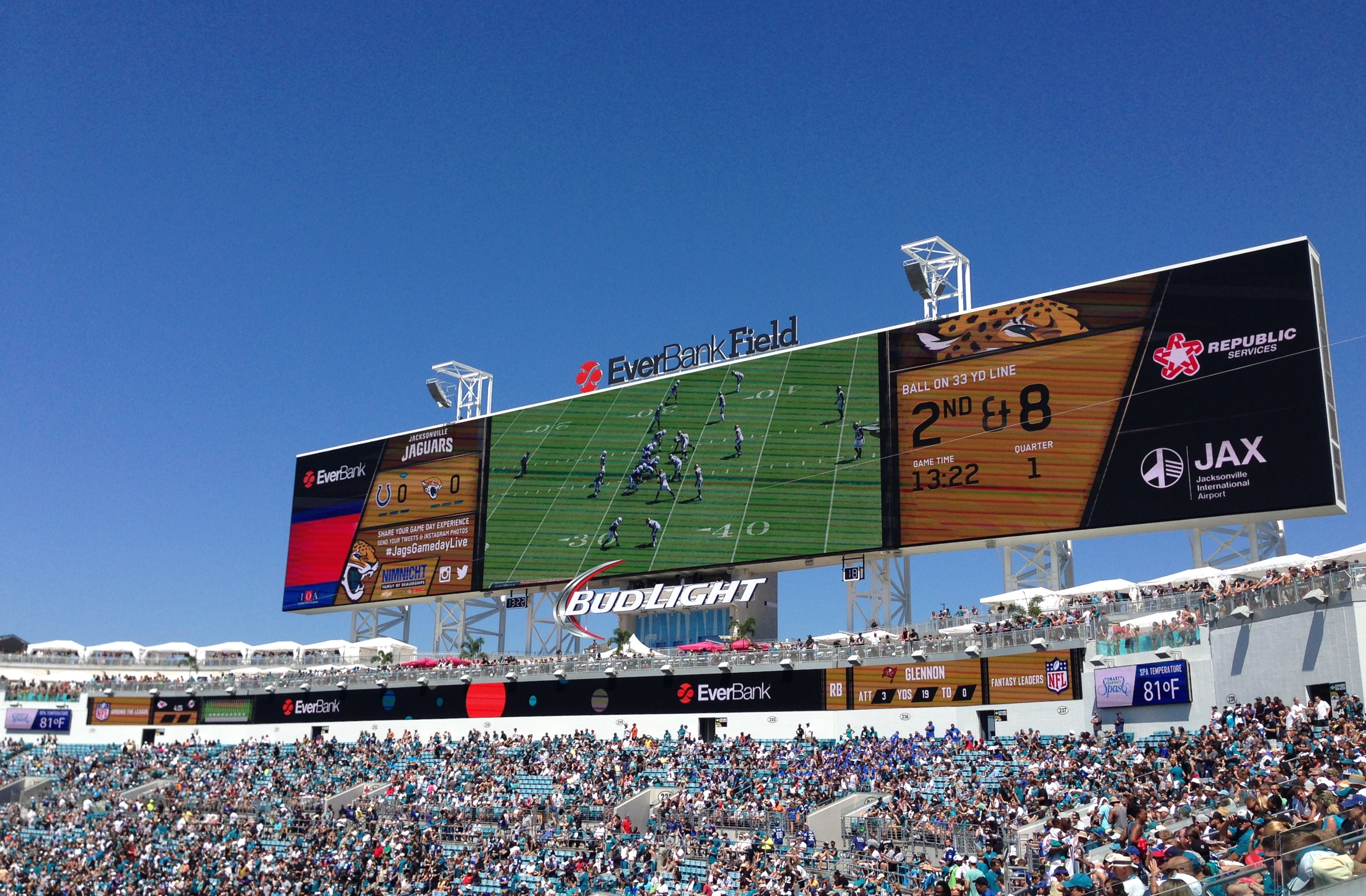 The north end zone of EverBank Field, showing the new scoreboards, party deck, and pools.